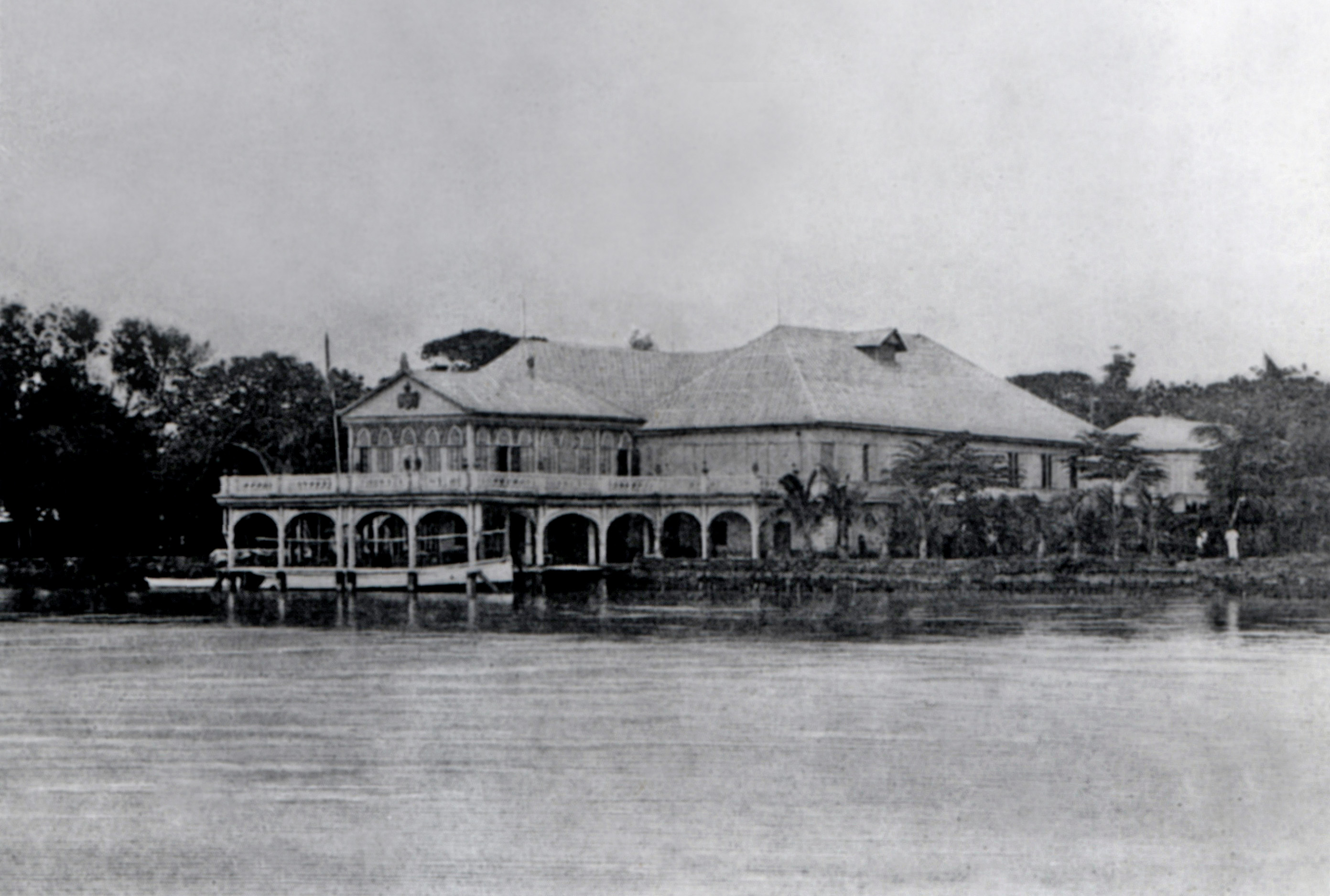 The Malacanang Palace on the Pasig River in 1910. It is the official residence of the President of the Philippines.